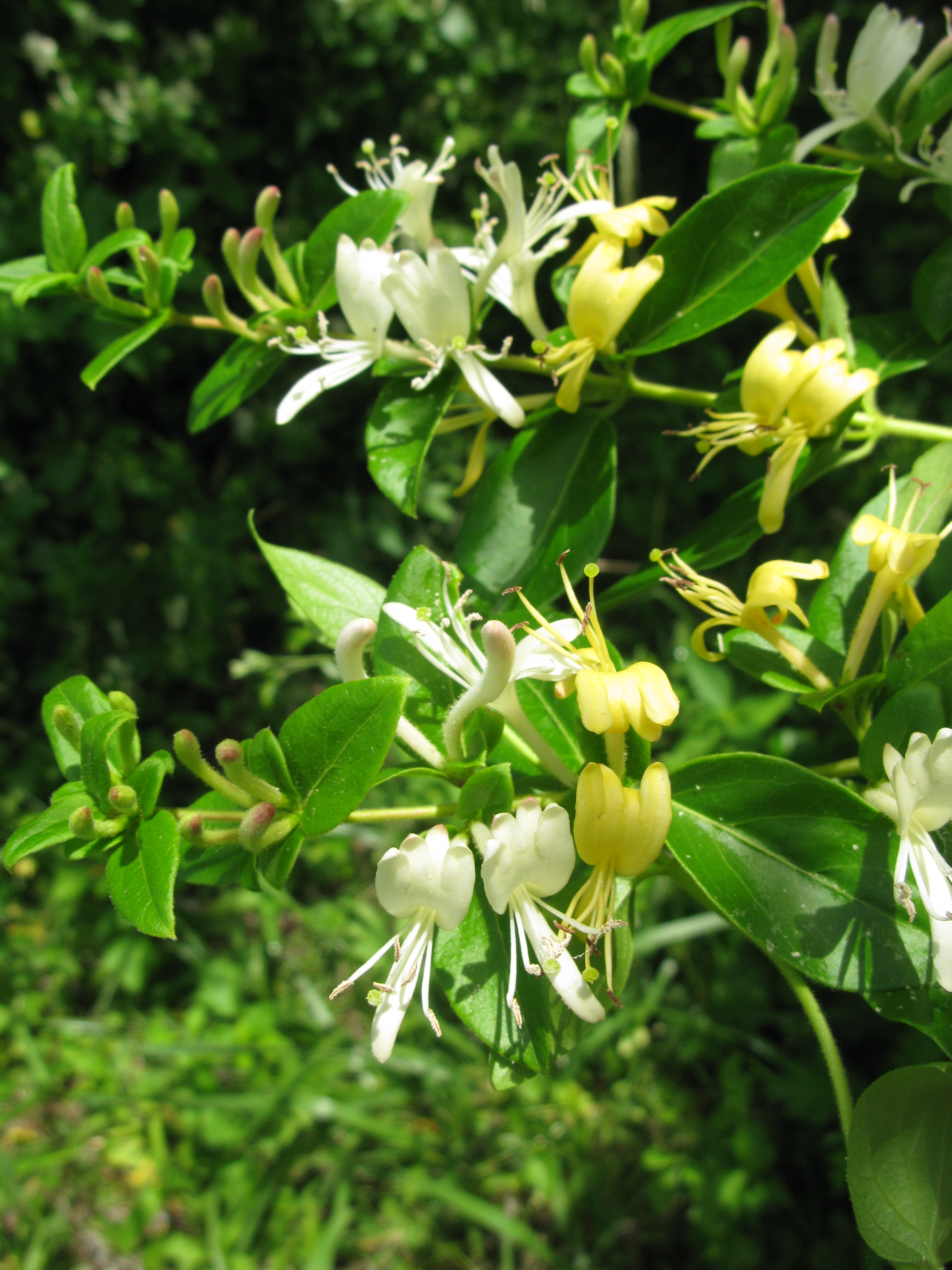 Lonicera japonica, Aizu area, Fukushima pref., Japan